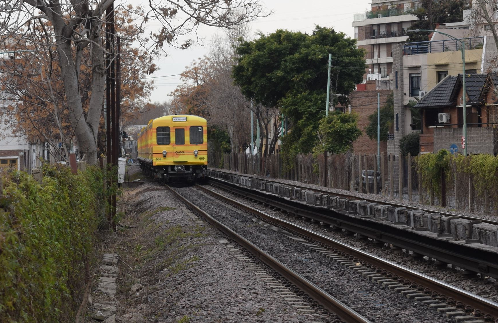 Original file by Mauricio V. Genta cropped to concentrate on the Eidan 500 rolling stock.